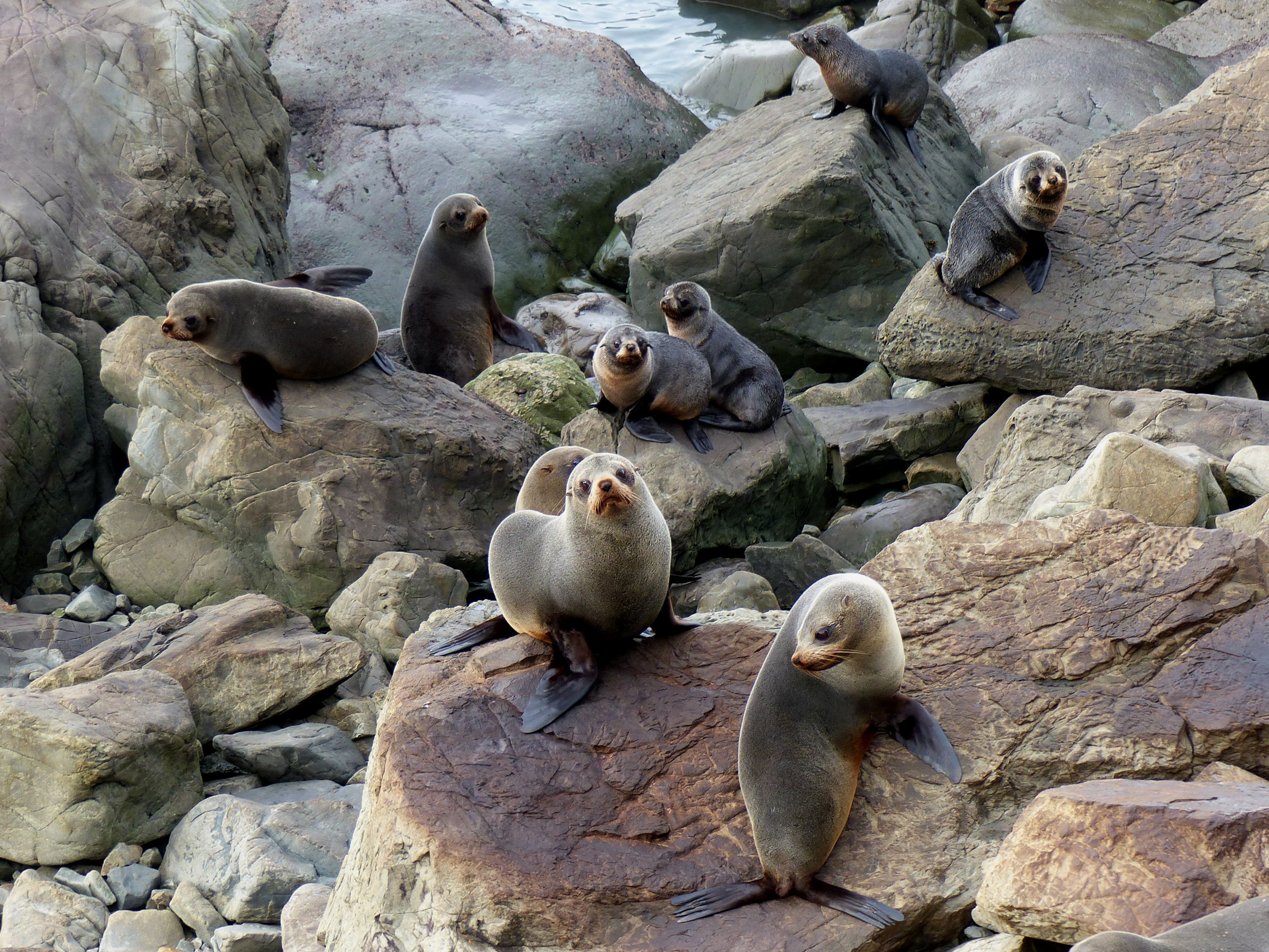 Watch NZ Fur Seals play - right next to State Highway 1. Ohau Point Seal Colony might be New Zealand's most accessible Seal Watching experience. And it's free! The carpark is directly off State highway 1 and as a traveller put it 'the seals are right there, waiting for you!' A glorious spot on a nice day with the backdrop of the mighty Pacific Ocean. Enjoy!